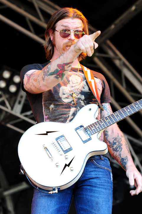 Soundwave Festival 2010